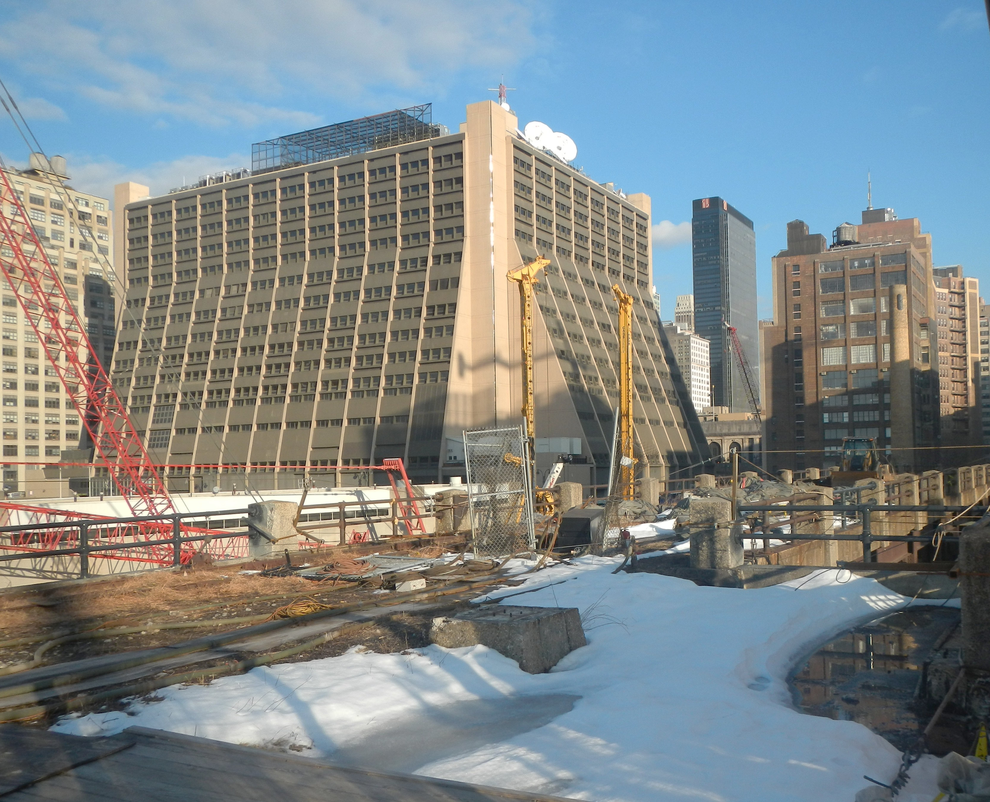 Looking east at the post office stub, late on a sunny winter day.